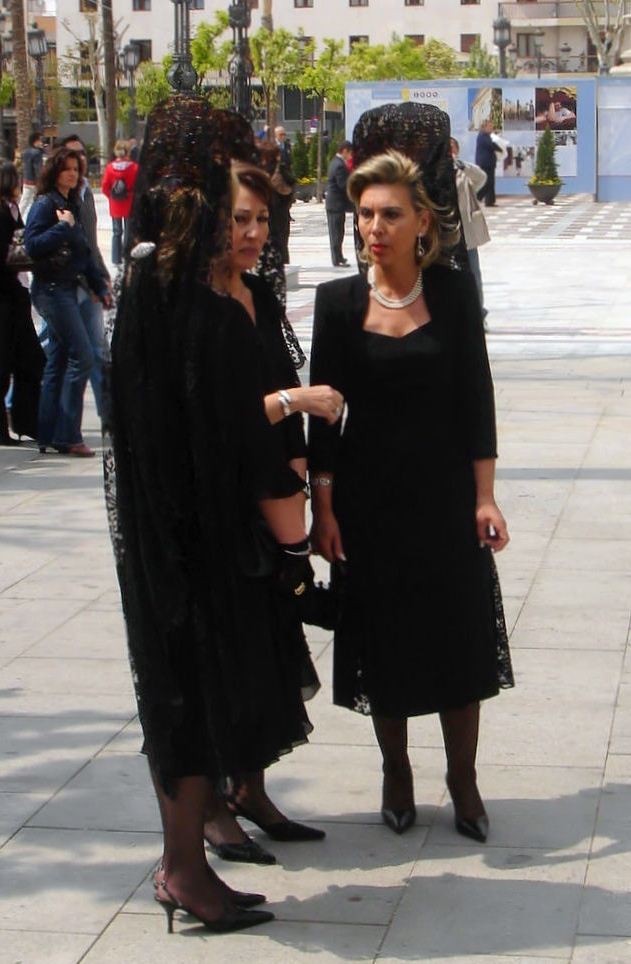 own picture taken by Carolus 23:51, 25 April 2007 (UTC) for wikimedia commons